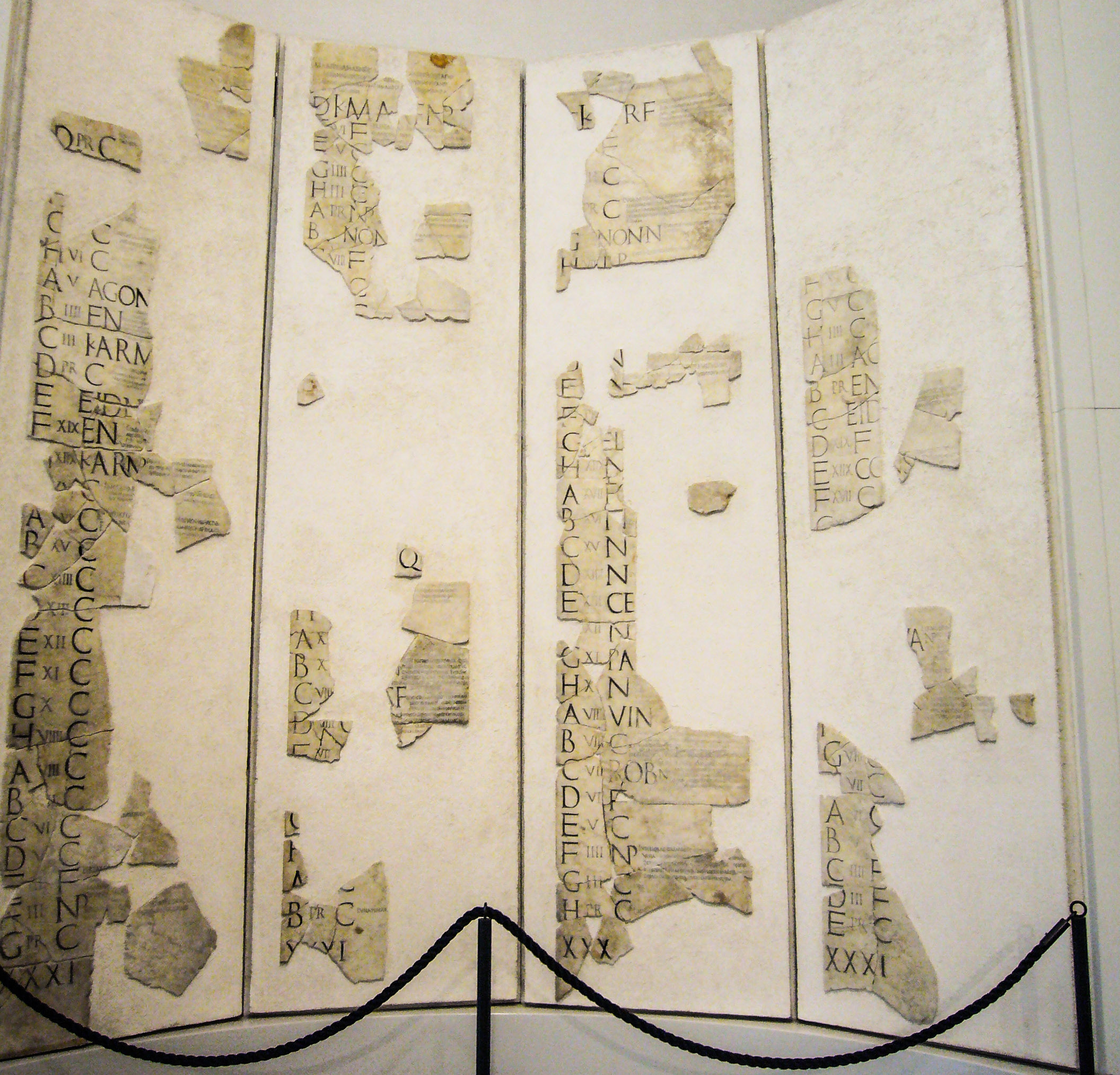 Fasti Praenestini, calendar of Verrius Flaccus, 6–9 BC. From Palestrina.